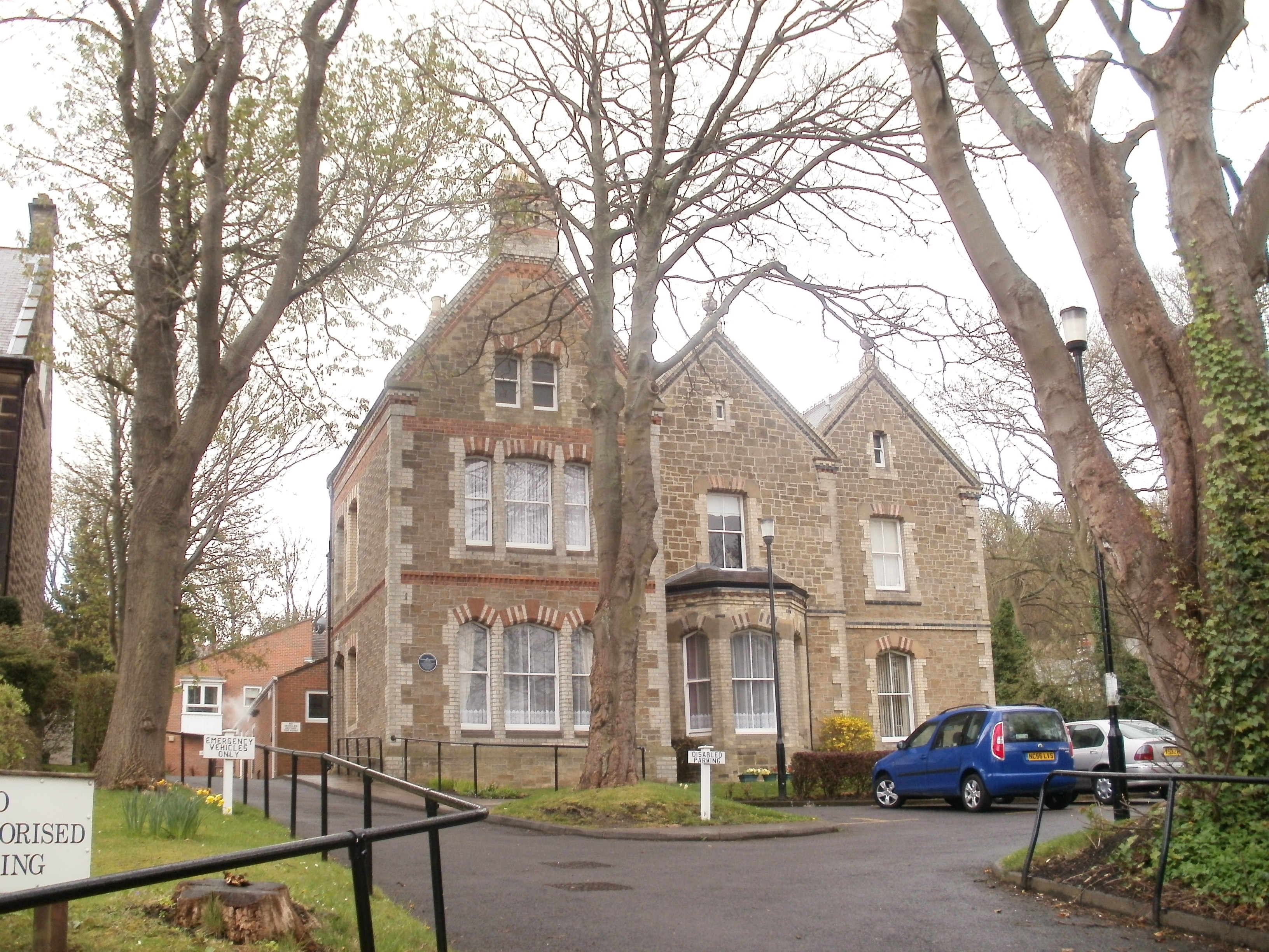 Underhill, situated at 99 Kells Lane, in the Low Fell suburb of Gateshead, north-east England, was the home of Sir Joseph Wilson Swan, inventor of the incandescent light-bulb and was the first domestic property in the world to be lit by electric light.